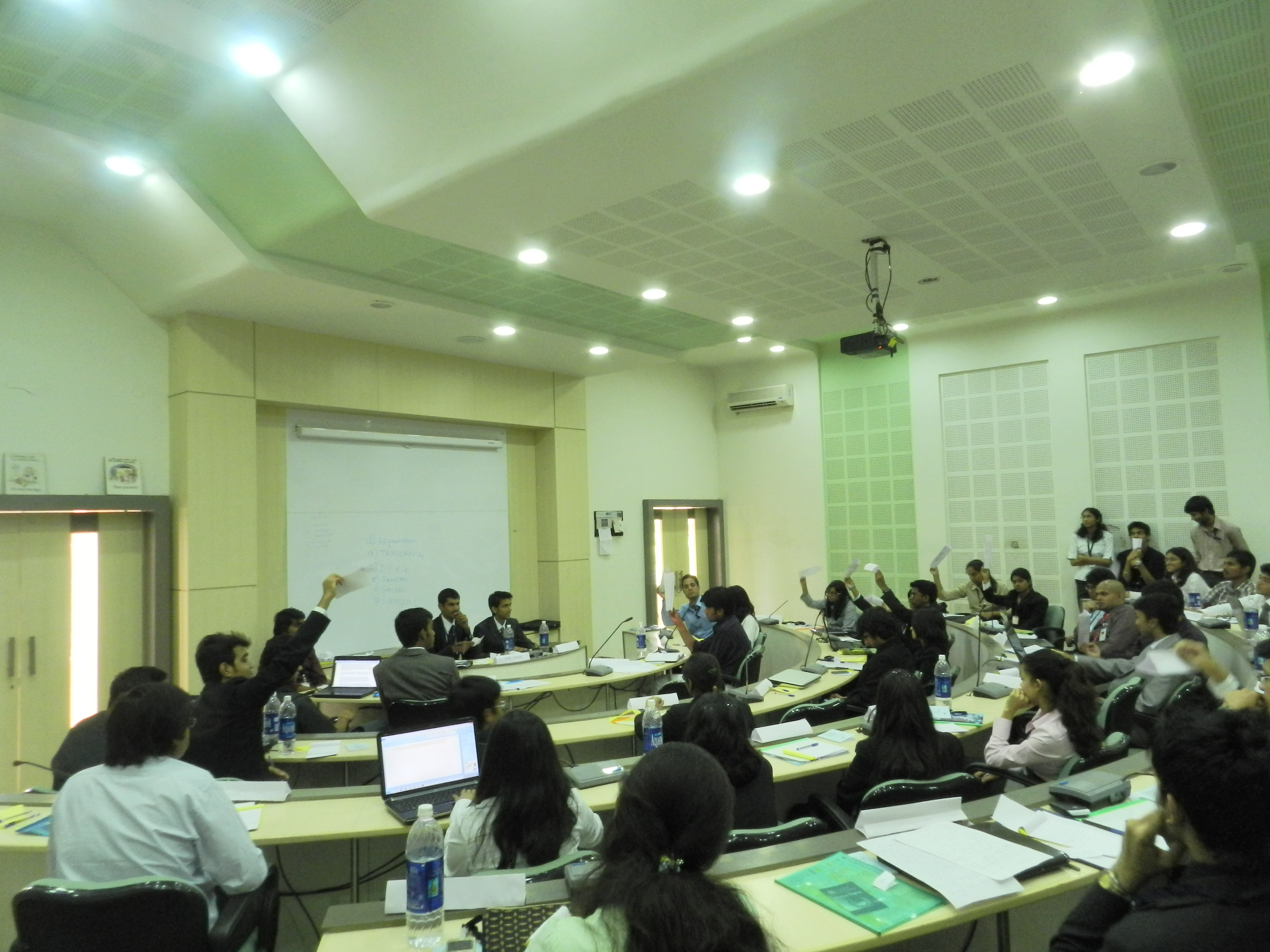 NITMUN 2012, General Assembly at the MBA Seminar Hall, NIT Warangal